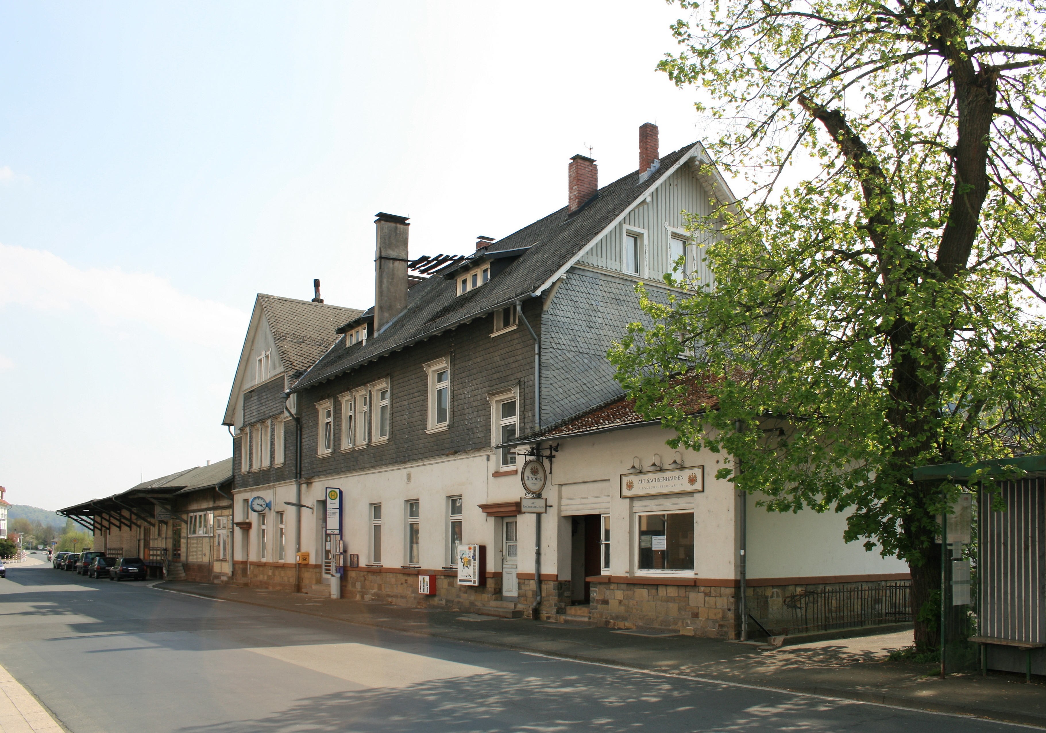 Germany, Hesse, Biedenkopf/Lahn: Station building (old train station restaurant, reception building, magazin/shop for used goods), seen from street Am Bahnhof.